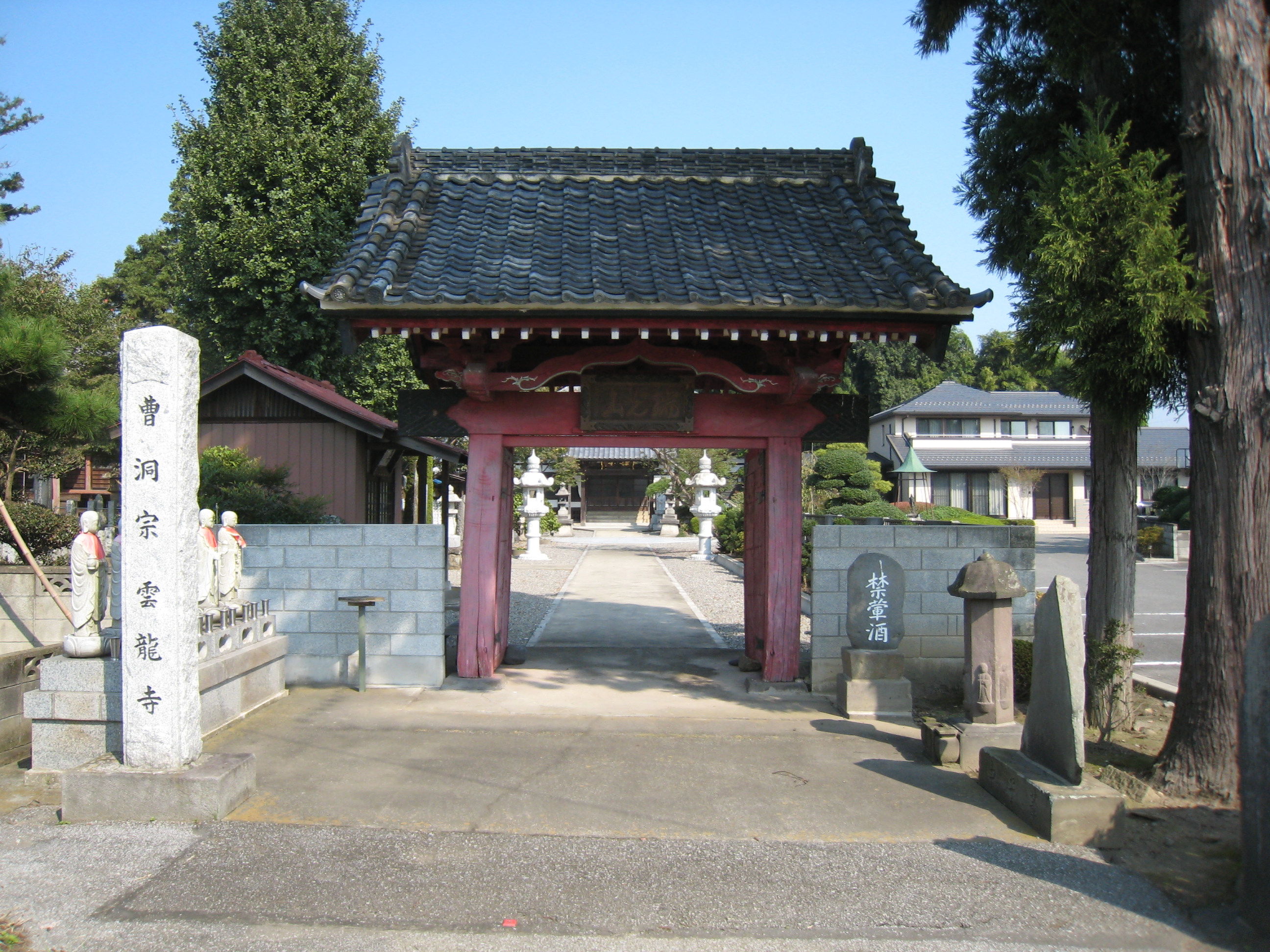 Red-lacquered gate in Unryu-ji(temple) in Tatebayashi, Gunma Prefecture,Japan.